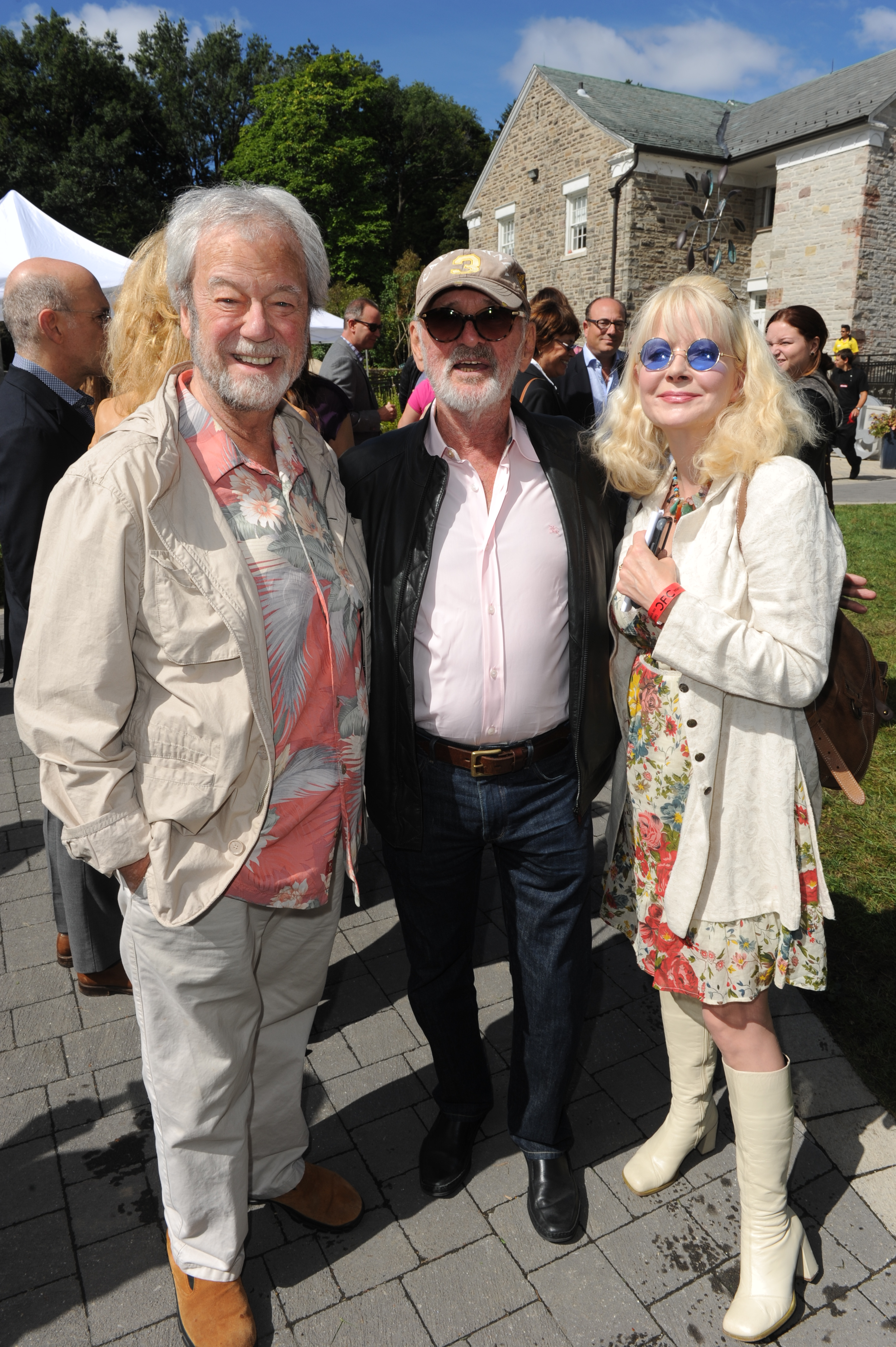 Gordon and Leah Pinsent pose with Norman Jewison at his annual Canadian Film Centre BBQ 2013. Original caption: “The 2013 CFC Annual BBQ celebrated CFC's work at the 2013 Toronto International Film Festival and its 25th Anniversary. Hosted by Norman Jewison during the Toronto International Film Festival (TIFF), the CFC Annual BBQ is held in celebration of the independent creative spirit. As one of the most sought after tickets on the TIFF party circuit, this exclusive invitation-only event takes place at Windfields, home of the CFC. In this informal, outdoor setting, guests are treated to food from some of Toronto’s finest restaurants and catering companies, in addition to enjoying selected wine, beer and spirits. Photo by Tom Sandler Photography.”